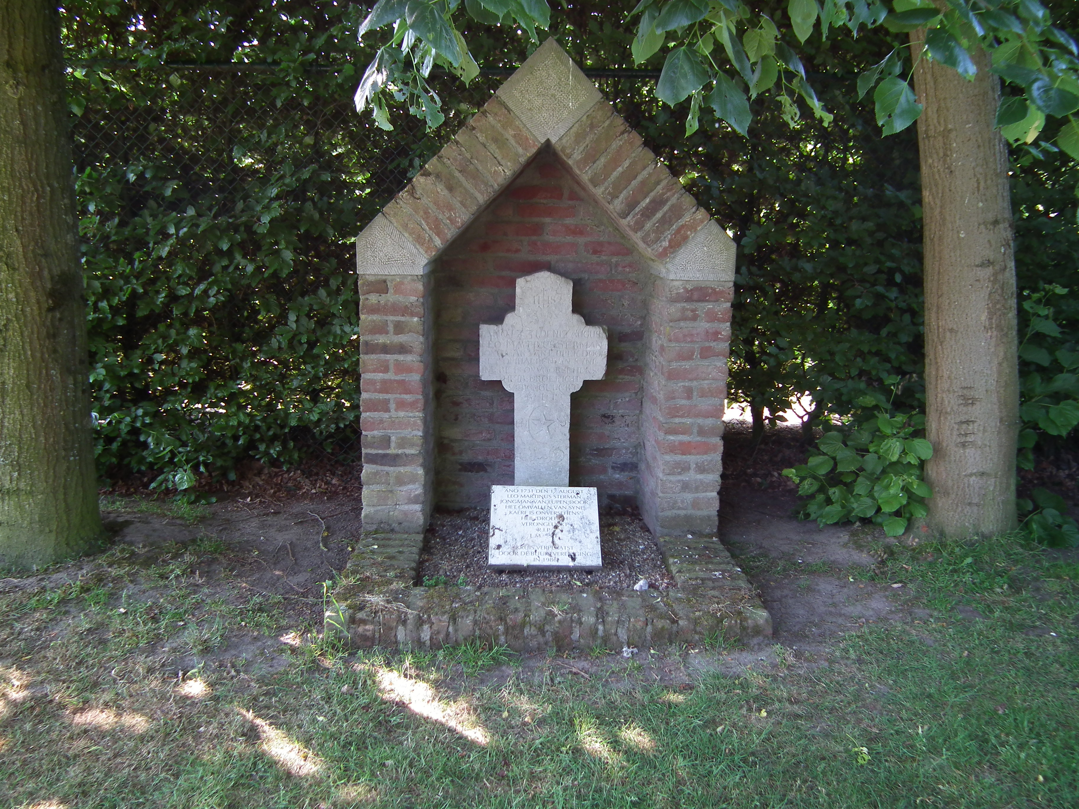 Memorial cross at the Wessemerdijk, near the village Nederweert